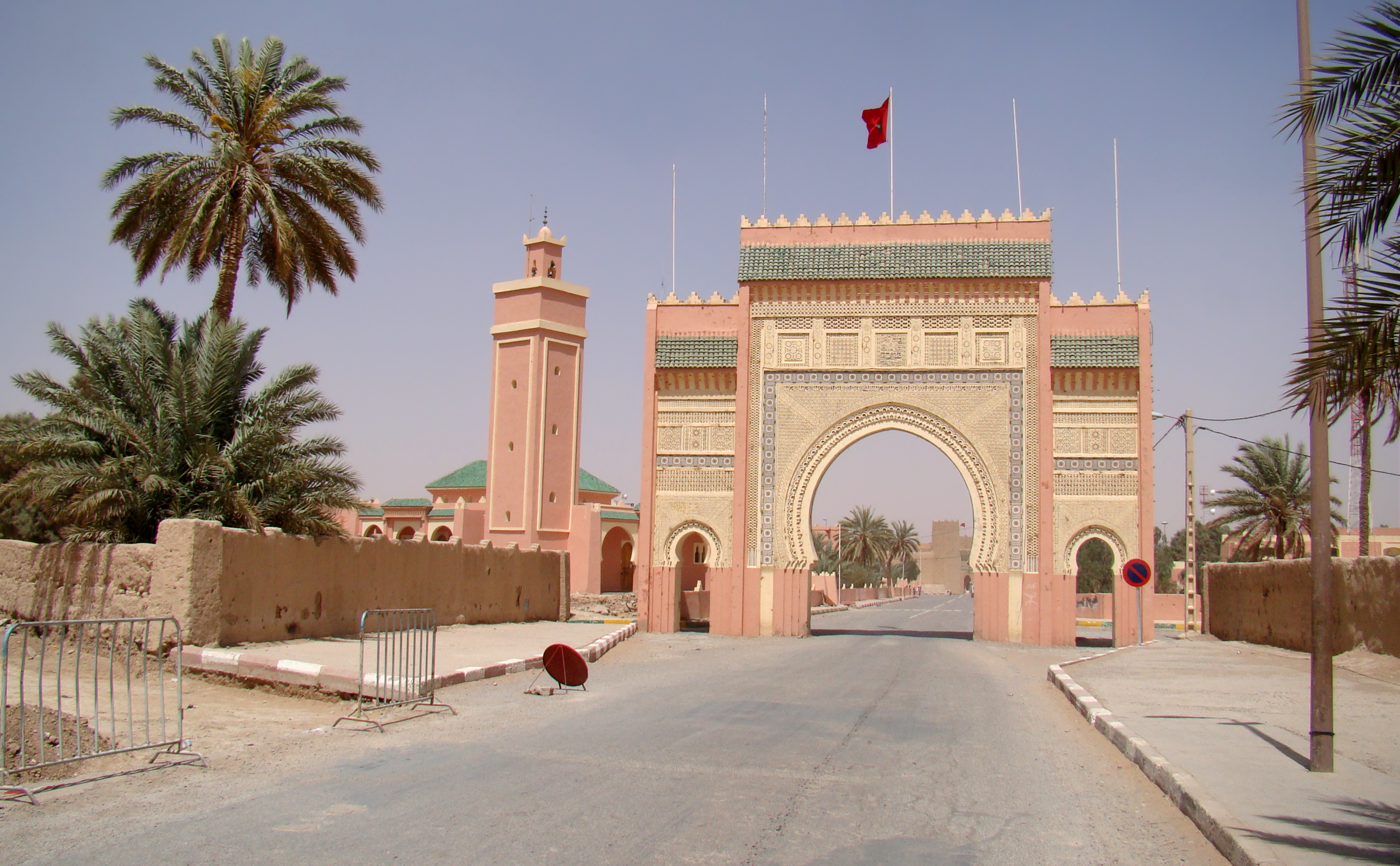 The city gate leading into Rissani, Morocco from main road N12 from the west.